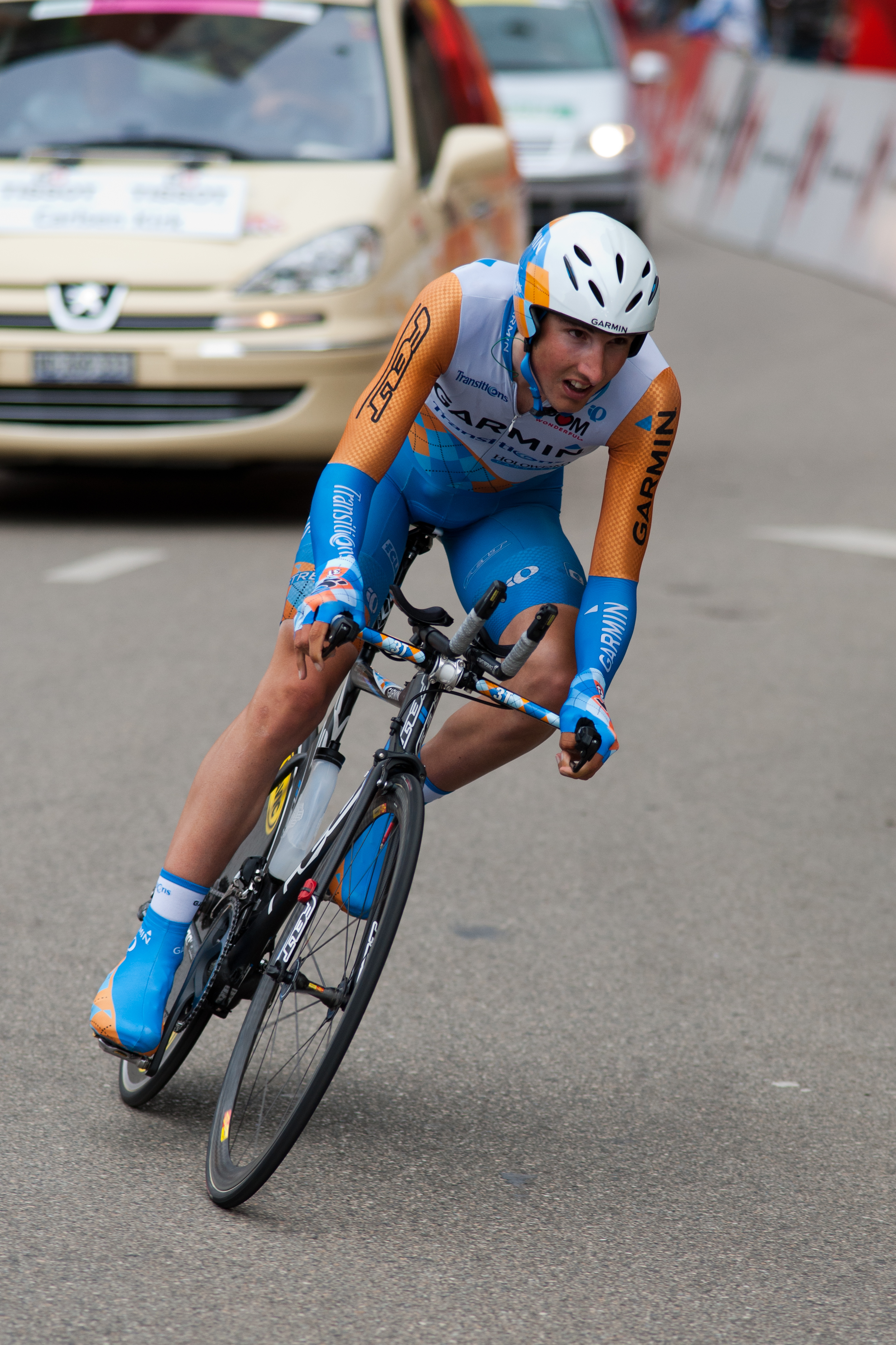 Kirk Carlsen during the 3rd stage of the Tour de Romandie 2010.